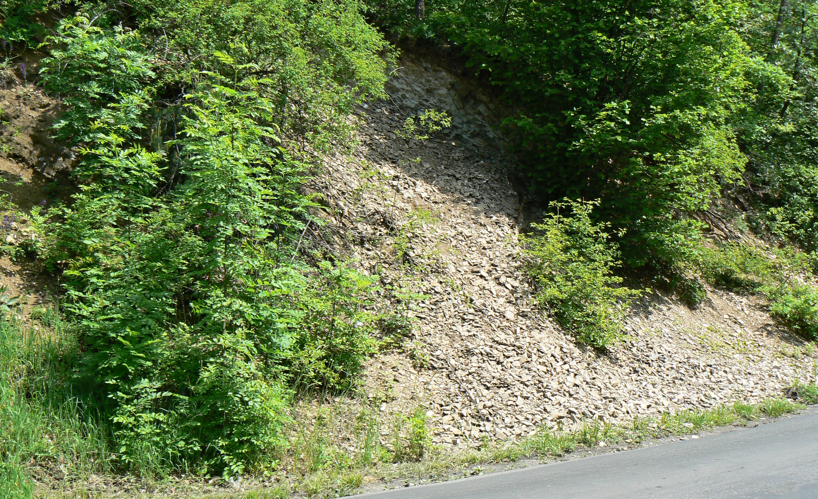 Natural monument Špičatý vrch-Barrandovy jámy near Loděnice in Beroun District